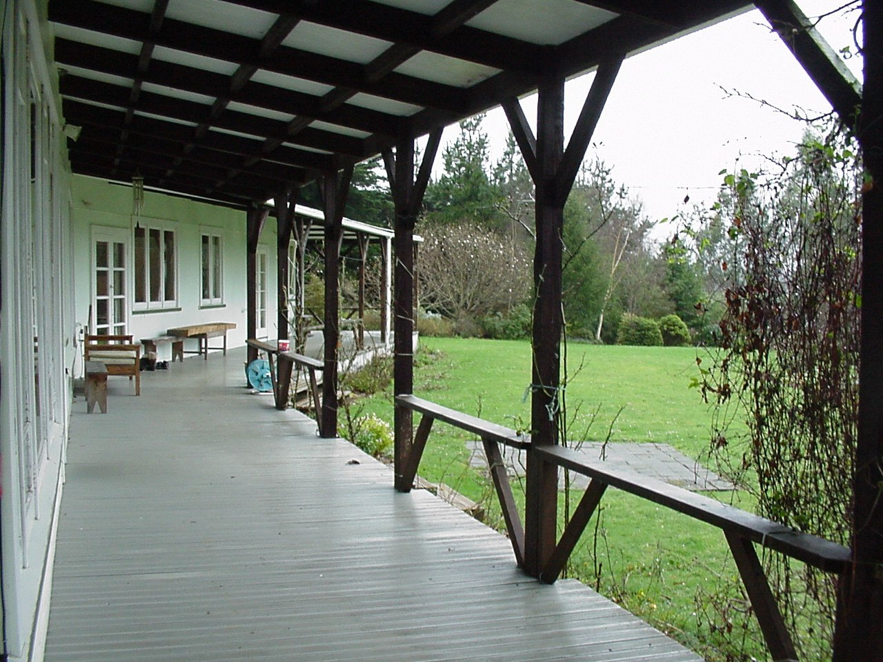 Photo by Craig M. Groshek